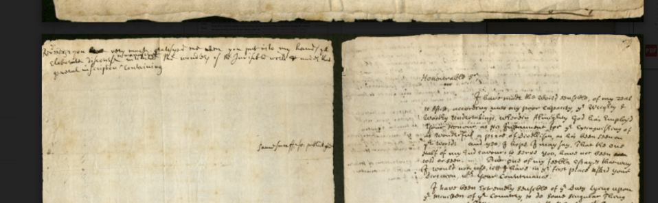 Upper left has Stoughton's "in verso" response, a paraphrased version of which was reprinted in Cotton Mather's Wonders. Right side is CM's salutation and opening paragraphs.